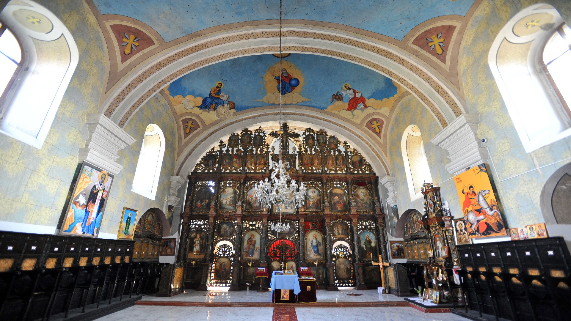 Interior of Church of Saint Nicolas in Šimanovci